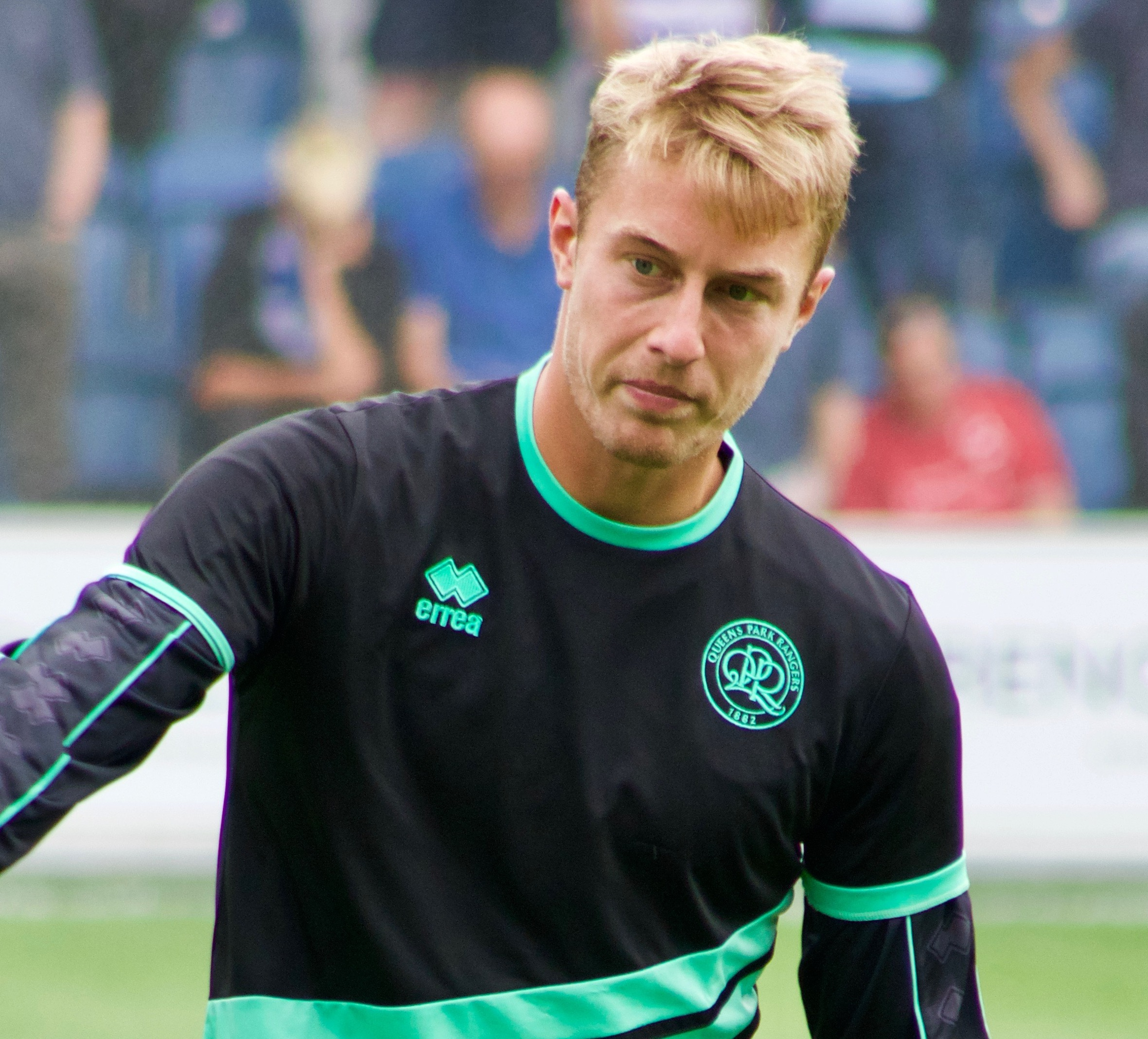 lumley